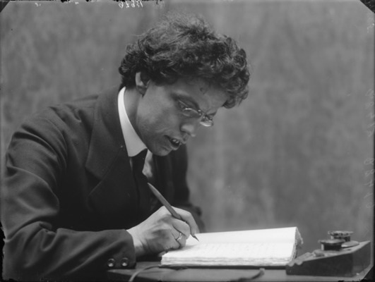 Giovanni Papini